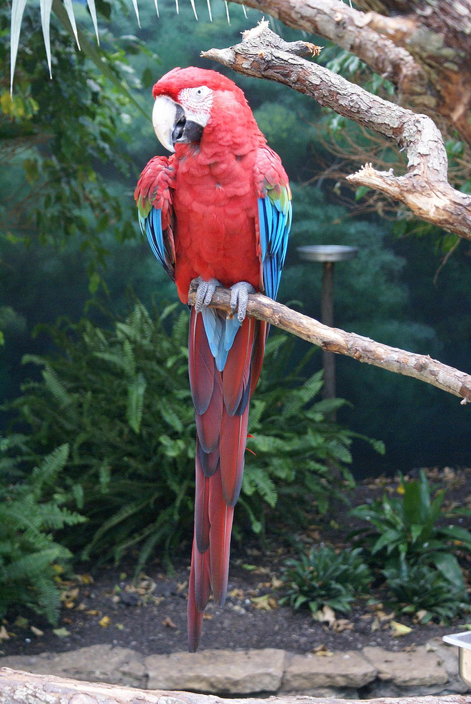 Green-winged Macaw or Red-and-green Macaw (Ara chloropterus) in Brookfield Zoo, near Chicago, USA.